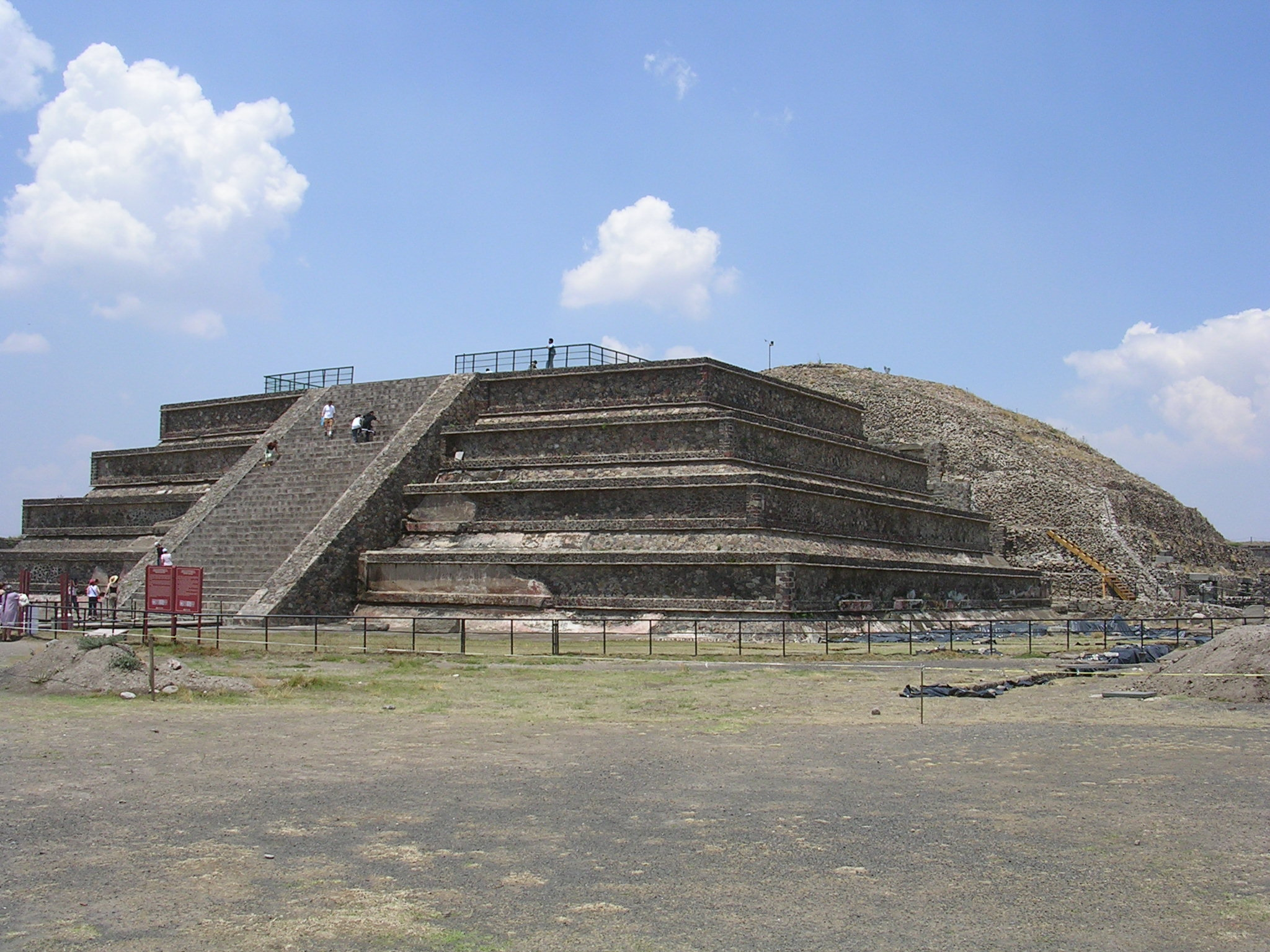 Excavation continues on additional pyramids.